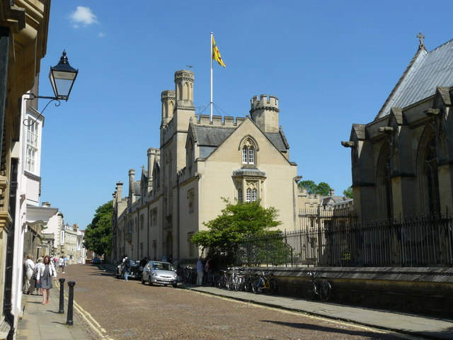 Merton Street, Oxford Looking towards Merton College Lodge, which has just seen the arrival of a wedding party.